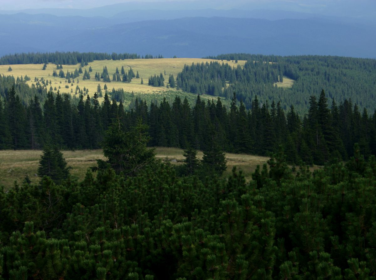 View in the Călimani Mountains, Romania